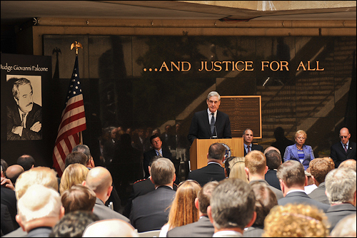 "Director Robert S. Mueller told the audience of American and Italian law enforcement that the relationships Falcone forged years ago between the Italian National Police and the FBI “have borne tremendous fruit in this age of international crime and terrorism. Those friendships have set the standard for global cooperation among law enforcement.”"